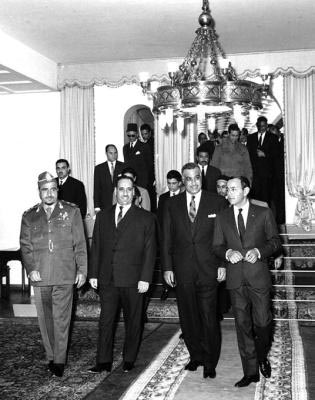 President Gamal Abdel Nasser with Iraqi President Abdel Salam Aref at a conference of Arab heads of state in Cairo, Egypt